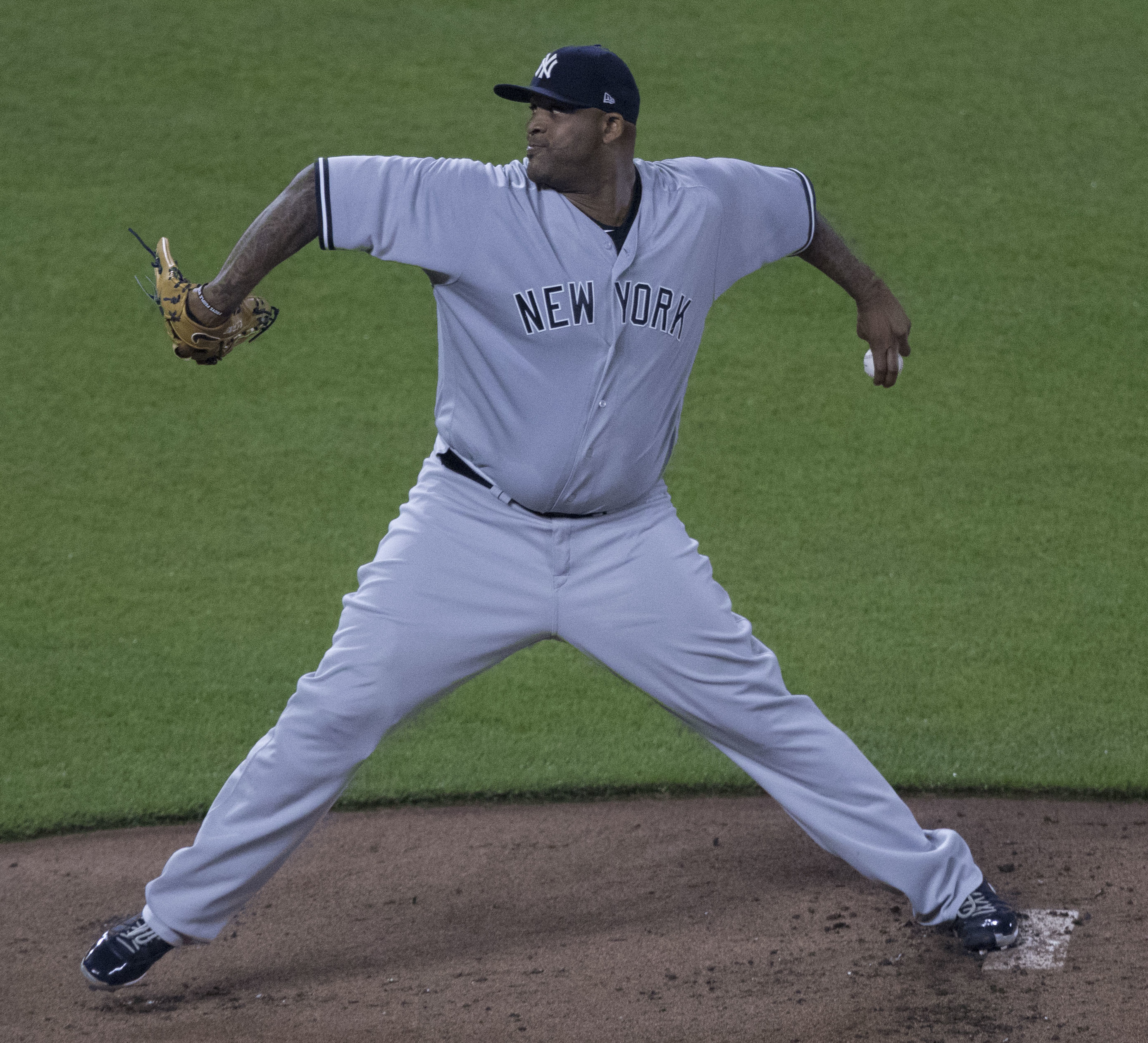 Starting pitcher CC Sabathia of the New York Yankees during a game against the Baltimore Orioles at Oriole Park at Camden Yards on September 5, 2017 in Baltimore, Maryland.